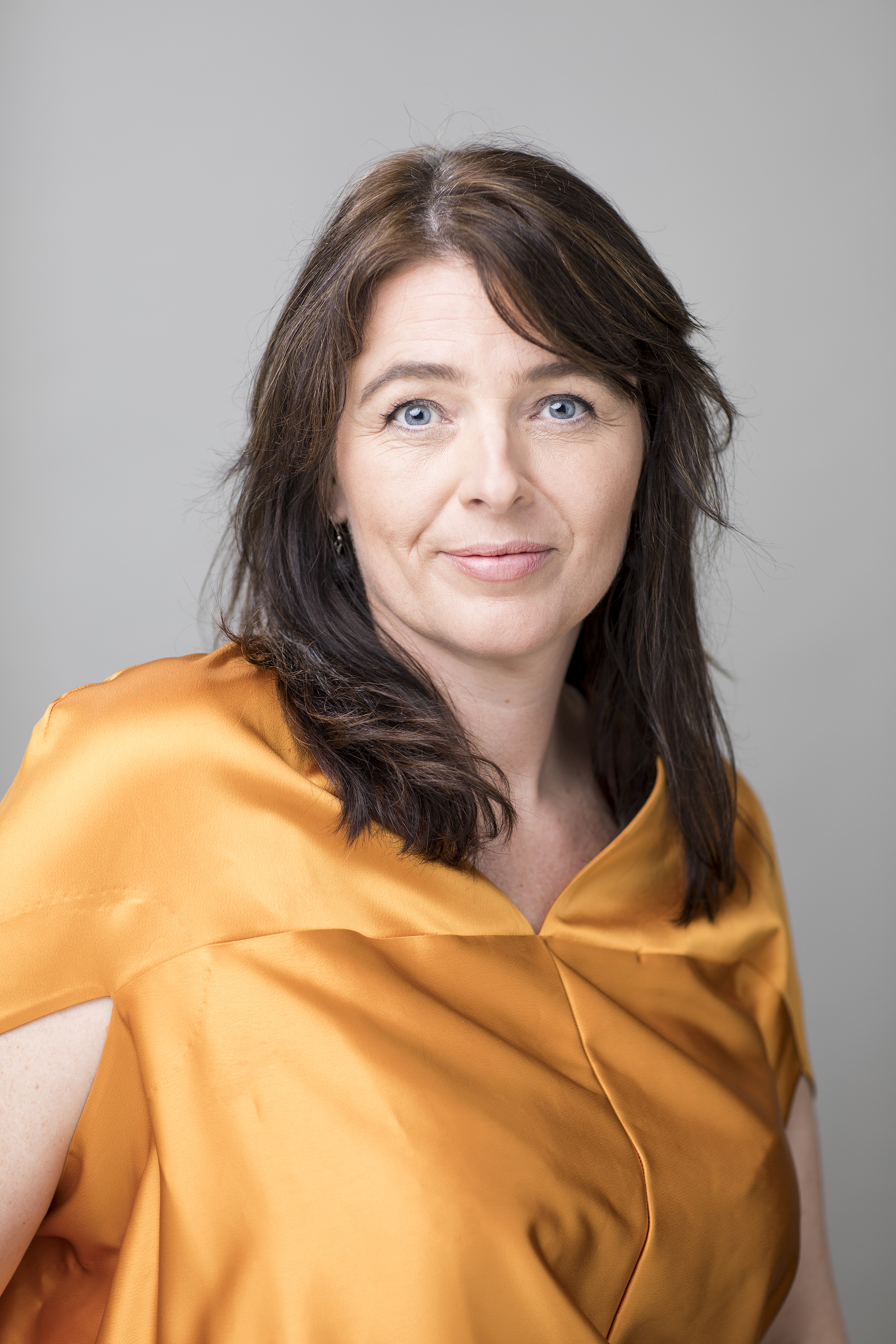 Silja Dögg Gunnars­dóttir member of parliament in Iceland